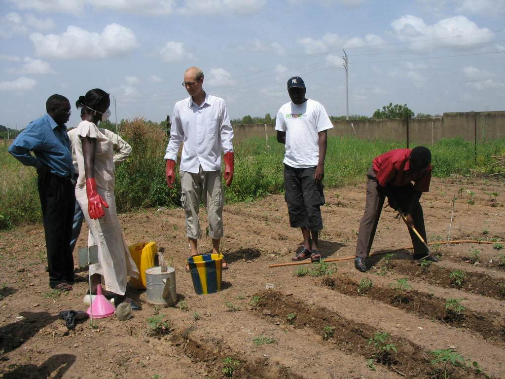 Application of urine in agriculture (demonstration event)